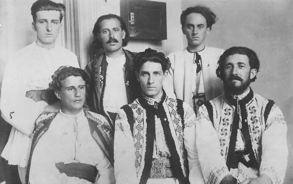 Corneliu Zelea Codreanu și Văcăreștenii - în picioare de la stânga spre dreapta: Corneliu Georgescu, Teodosie Popescu, Ion I. Moța - așezați: Radu Mironovici, Corneliu Zelea Codreanu, Ilie Gârneață.